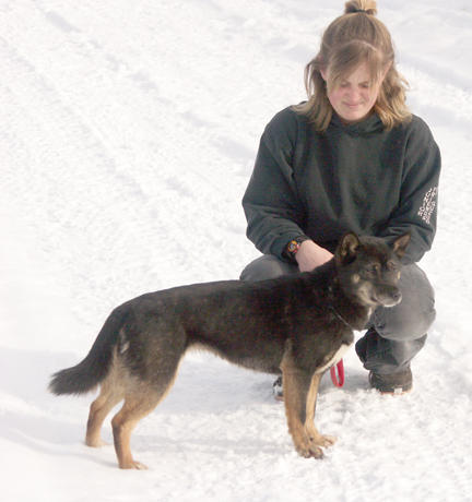 Guzoo Animal Farms black & tan Singing Dog. One of only 4 in the world.